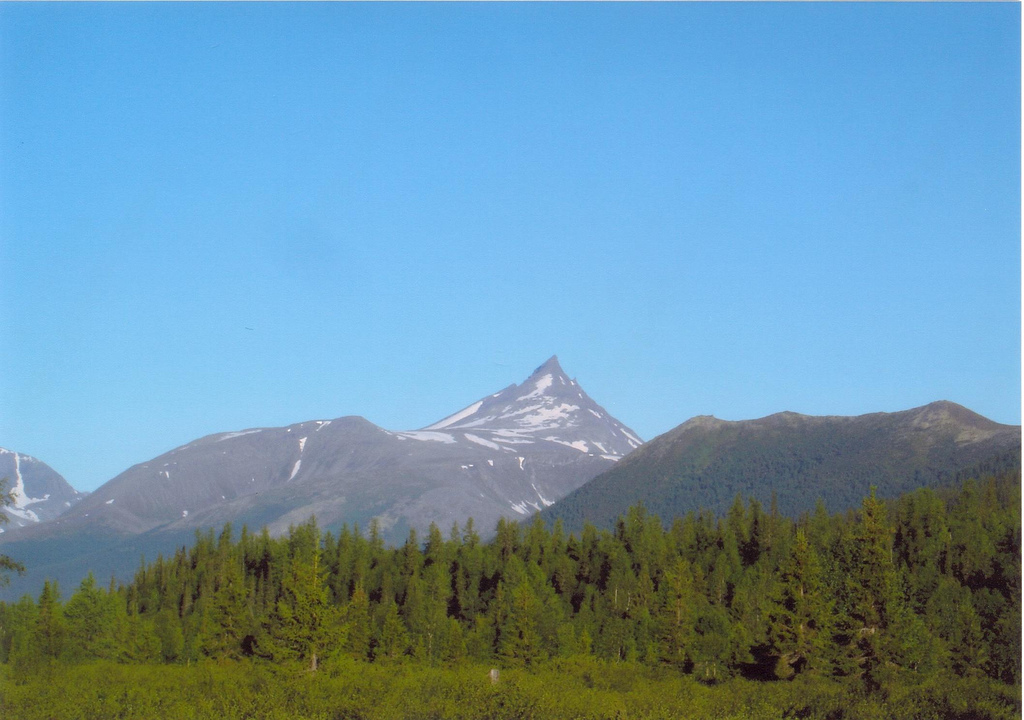 Ural mountains